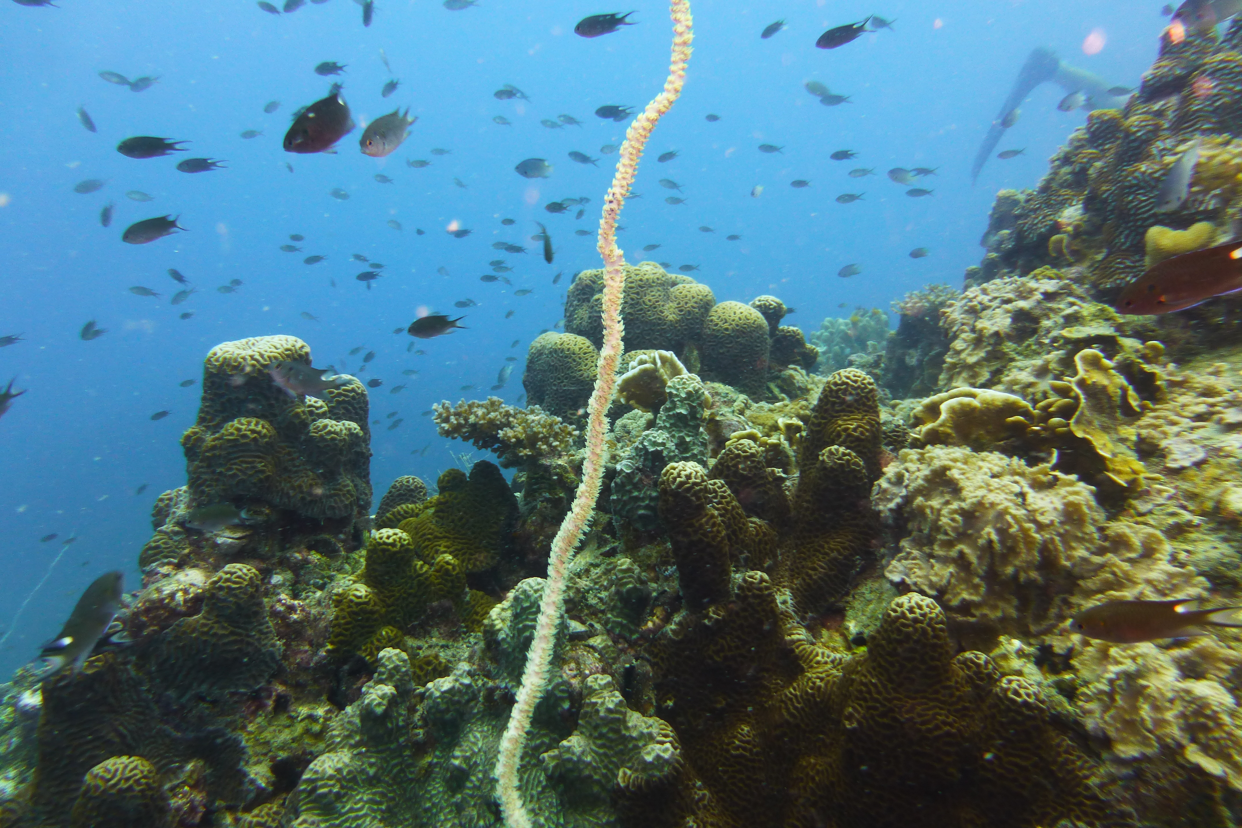 Underwater photographs of plants and animals from diving sites around Ko Tao, Thailand.